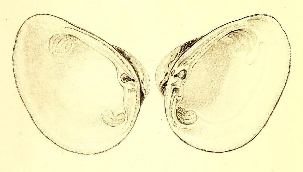 Rangia cuneata (G. B. Sowerby I, 1832), Mactridae, Bivalvia, Mollusca